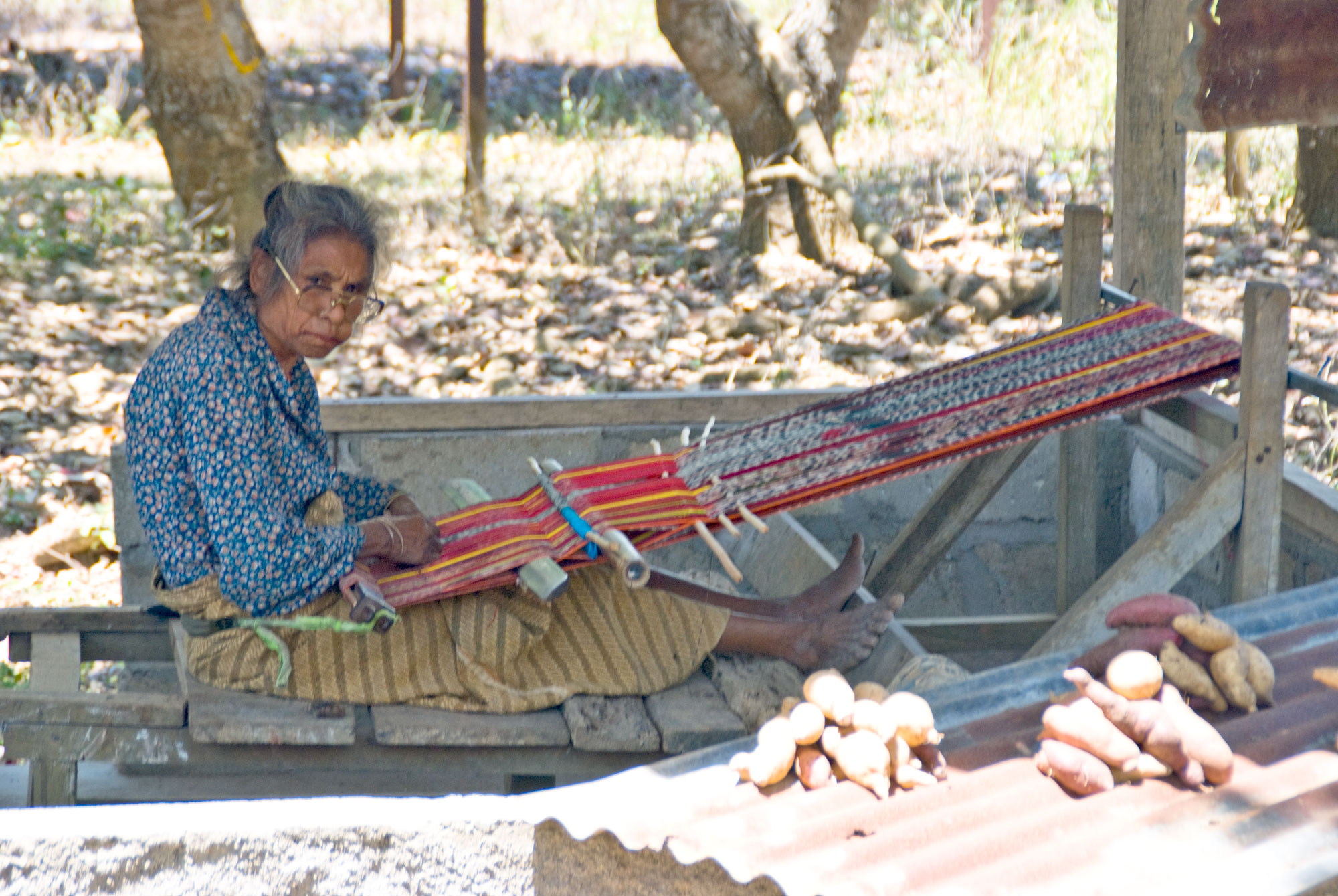 Weaver Woman